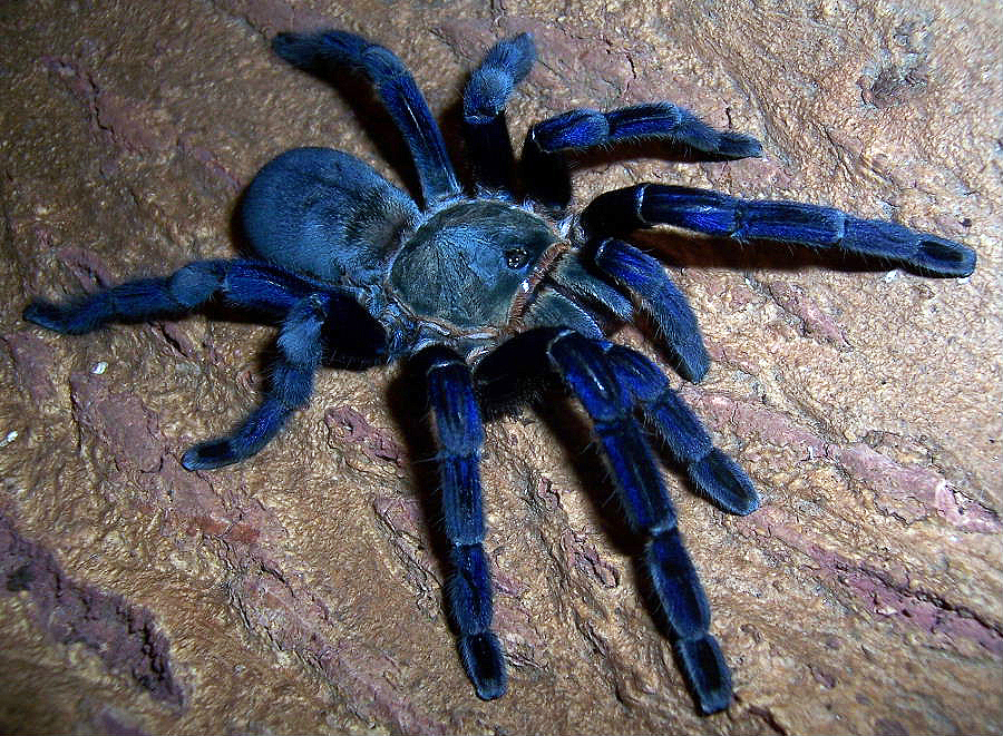 Haplopelma lividum